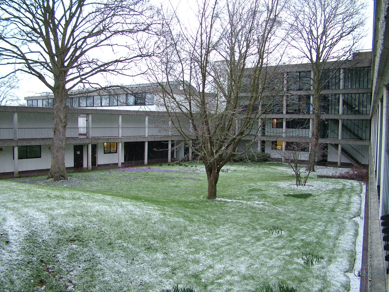 Wolfson College in Oxford during an unusually snowy winter's day.